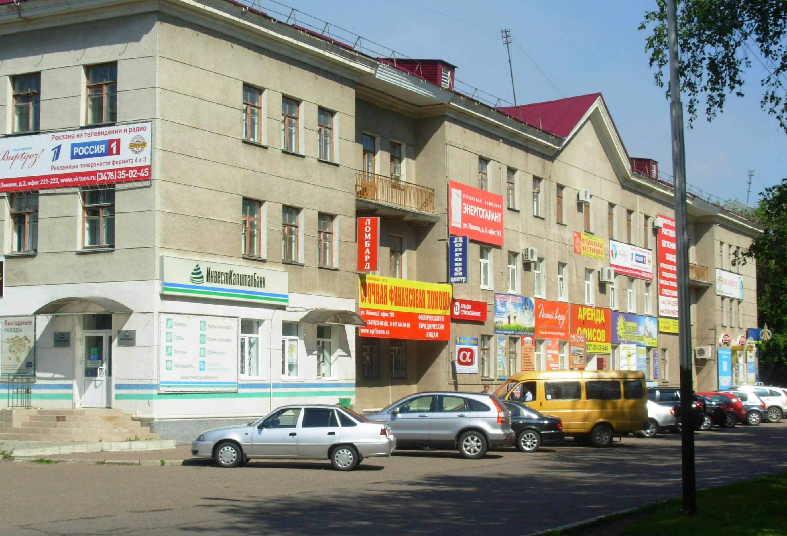 street